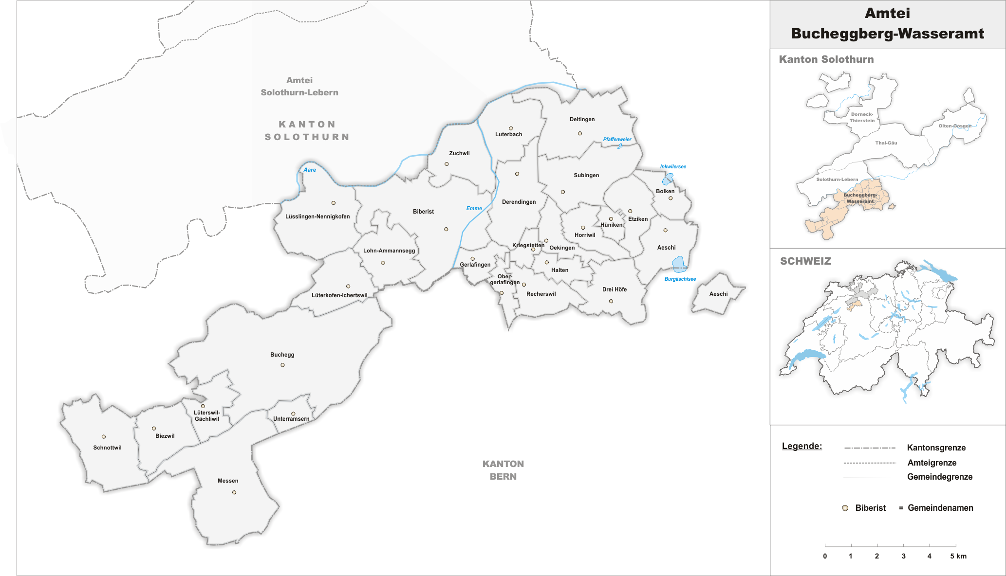 Municipality in the Amtei of Bucheggberg-Wasseramt